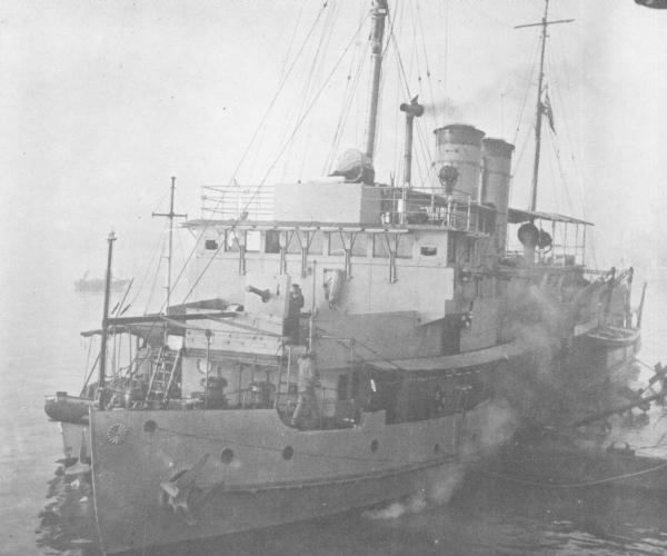 Japanese Gunboat "Tatara" at Shanghai.(ex.USS-Wake)